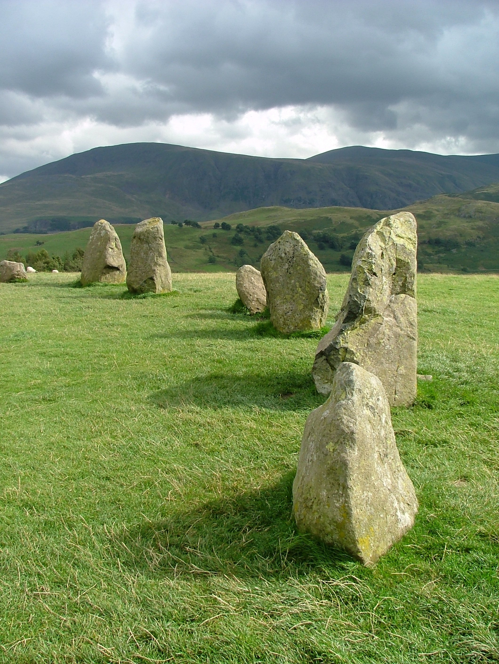 Photograph taken by Nick Woolley 2005. Category:Images of England